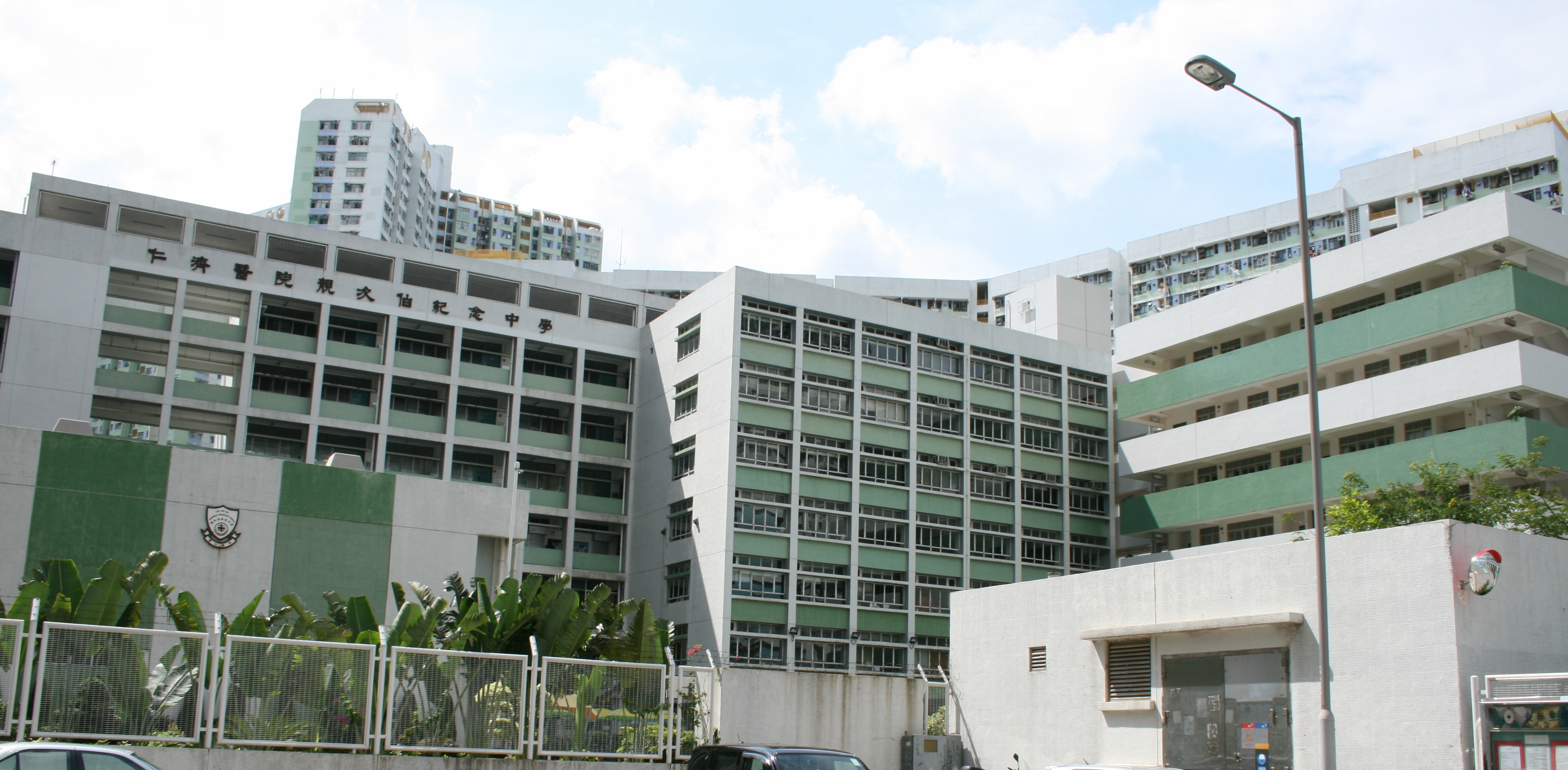 Yan Chai Hospital Lan Chi Pat Memorial Secondary School仁濟醫院靚次伯紀念中學